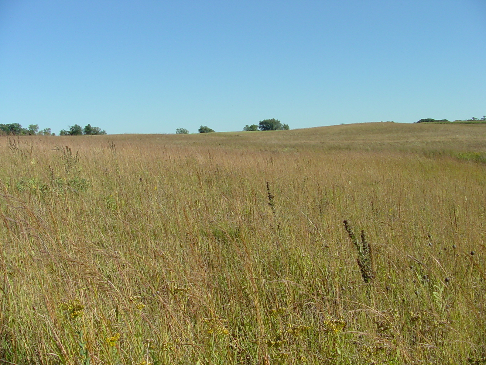 Picture taken by Mark Luterra September 2004